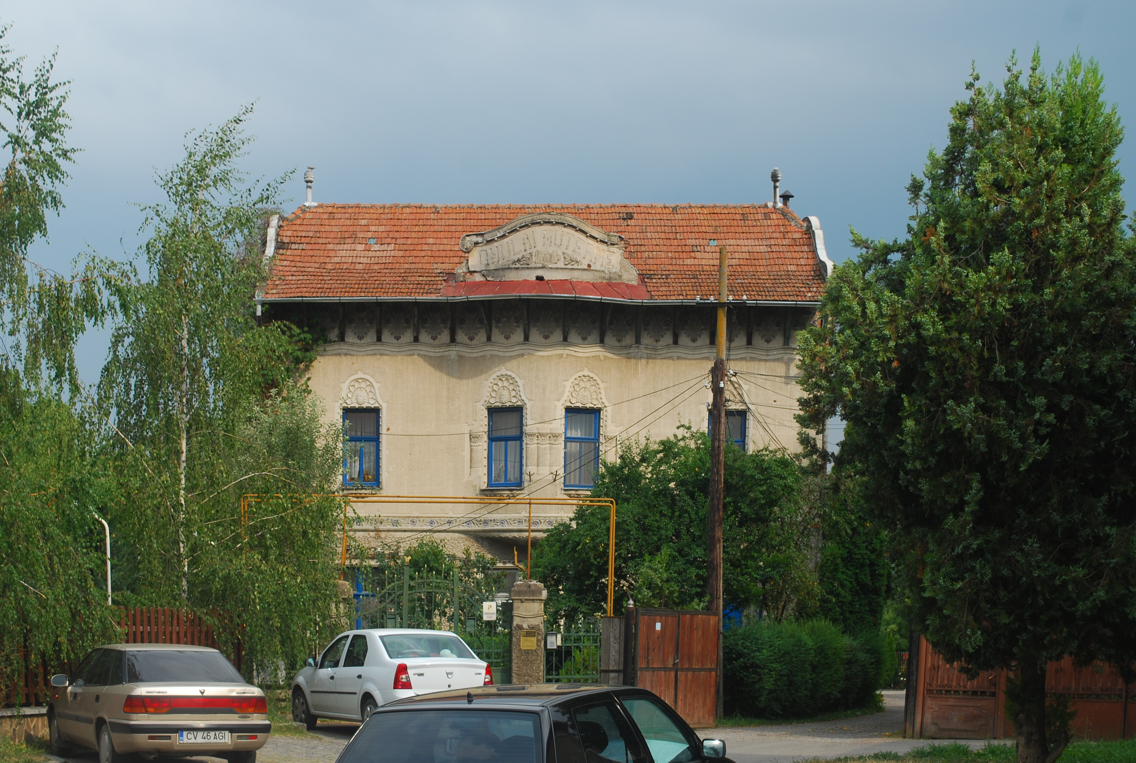 Gyulai house in Sfântu Gheorghe, Covasna County, Romania